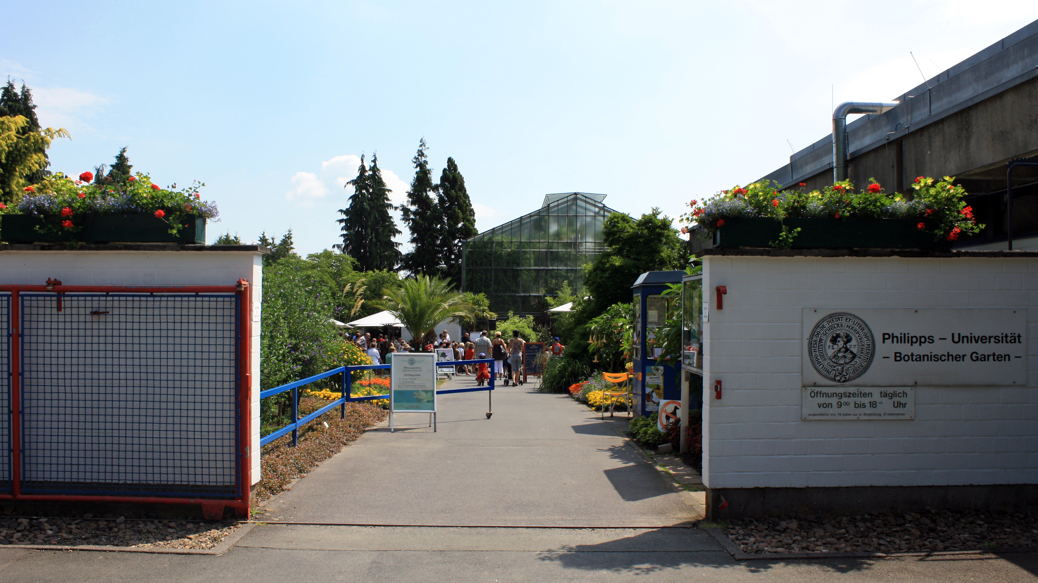 Entrance of the botanical garden in Marburg